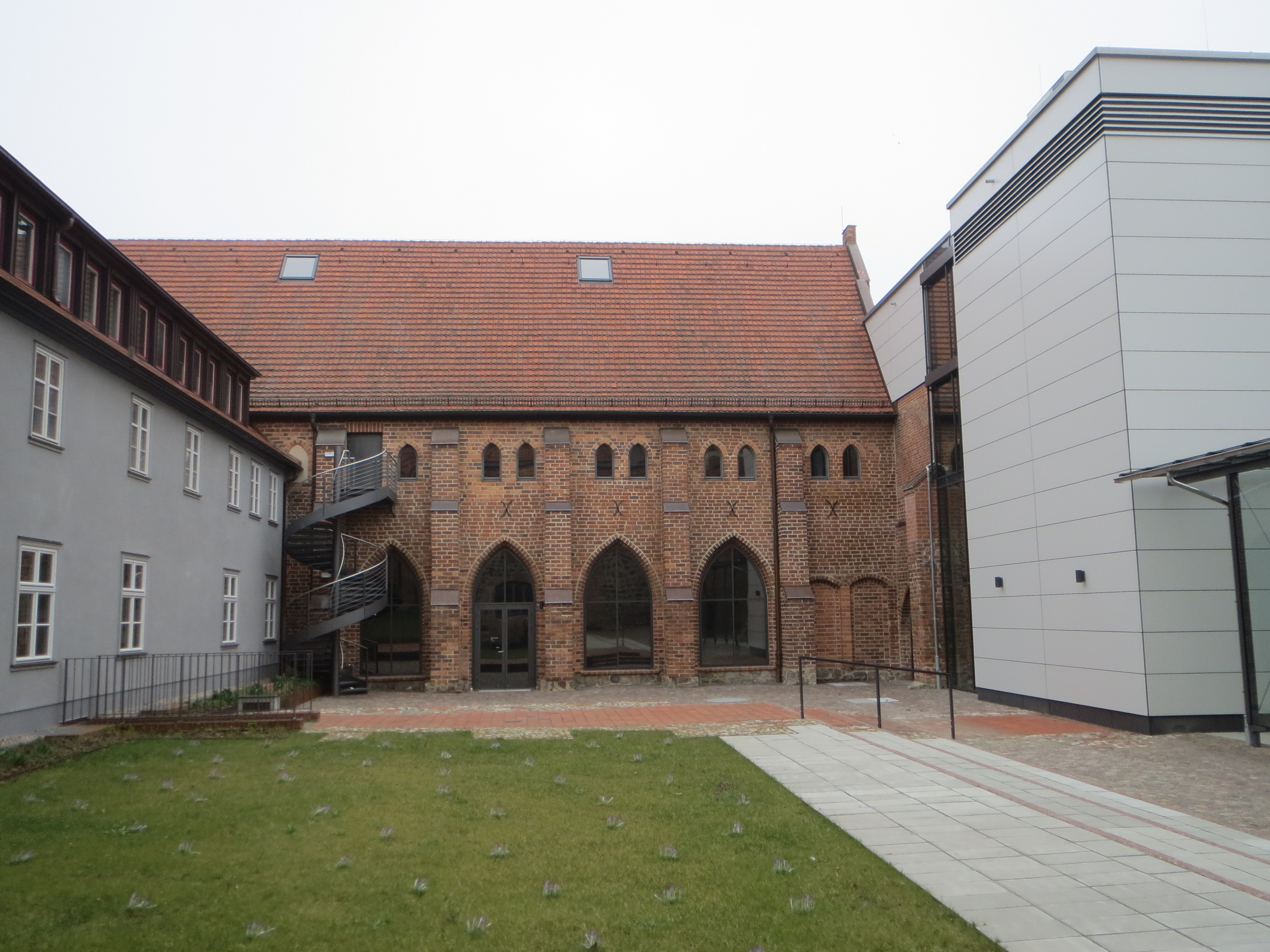 Franziskanerkloster Neubrandenburg